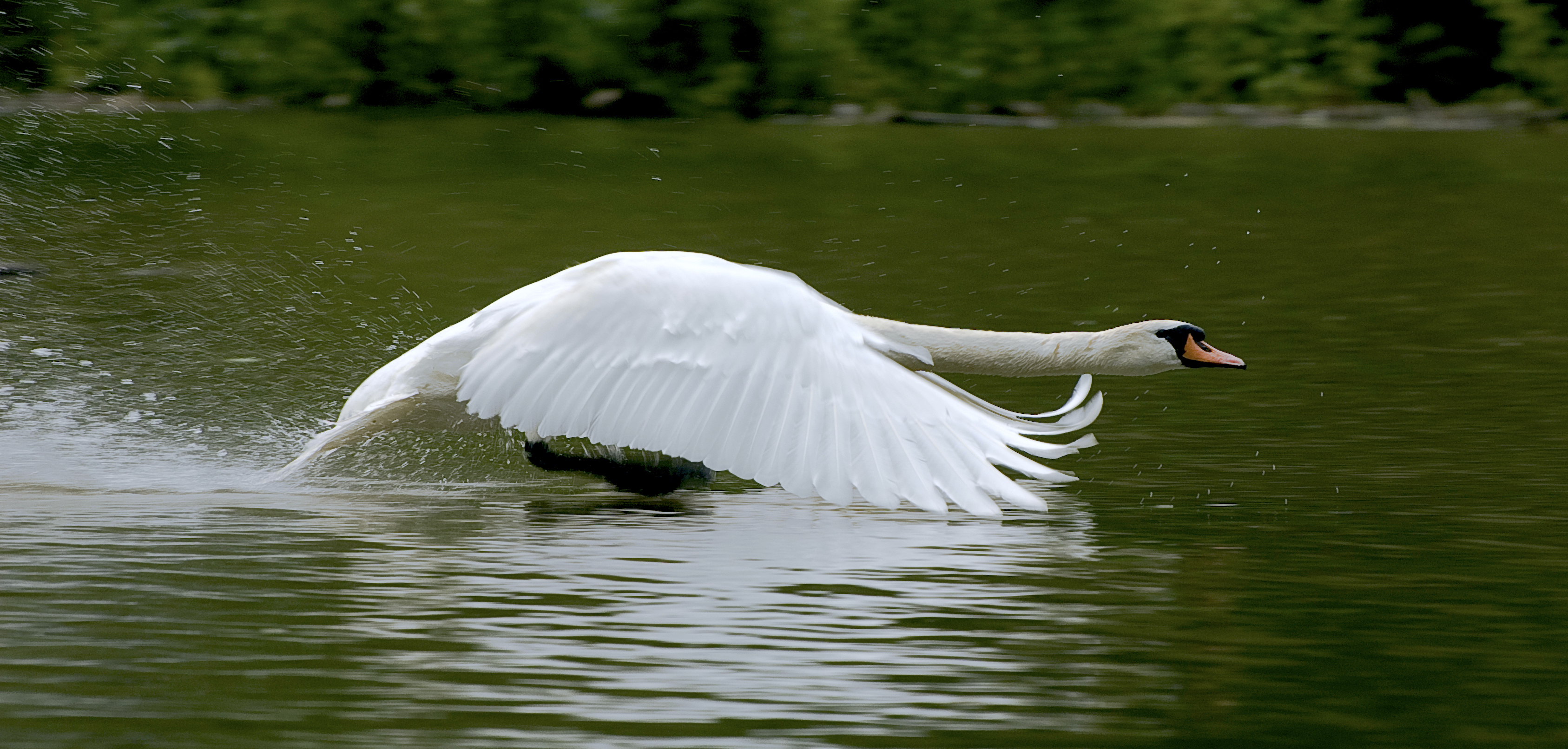 Höckerschwan (Cygnus olor) im Flug, Rheinkrippen bei Bingen am Rhein